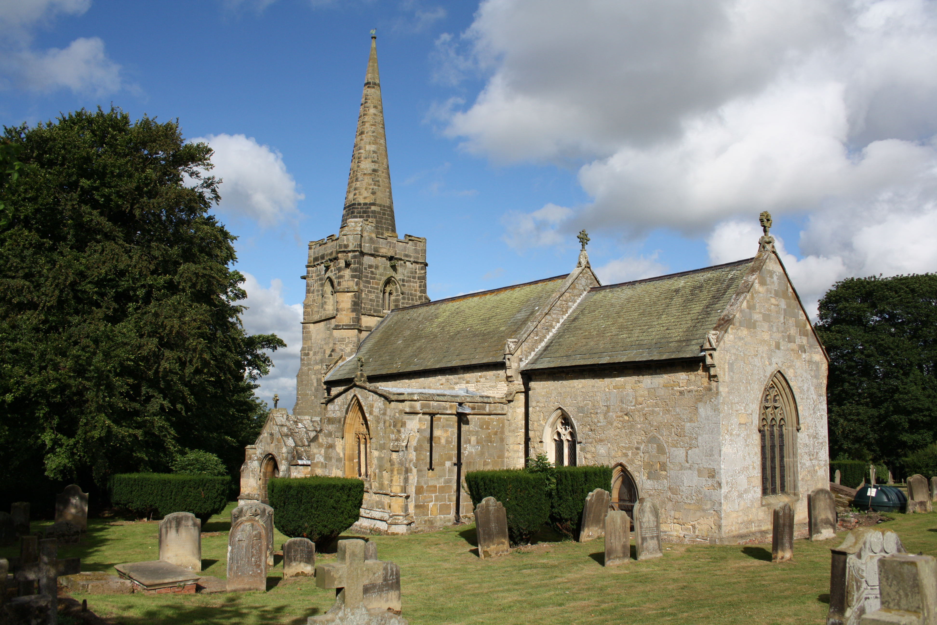 St Nicolas Church, Ganton